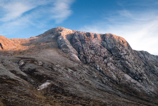 Carrot Ridge in the Gleninagh Valley, Twelve Bens, Connemara, Ireland. This is the northeastern spur of Bencorr to Bencorrbeg, which contains several large mountain rock-climbs.